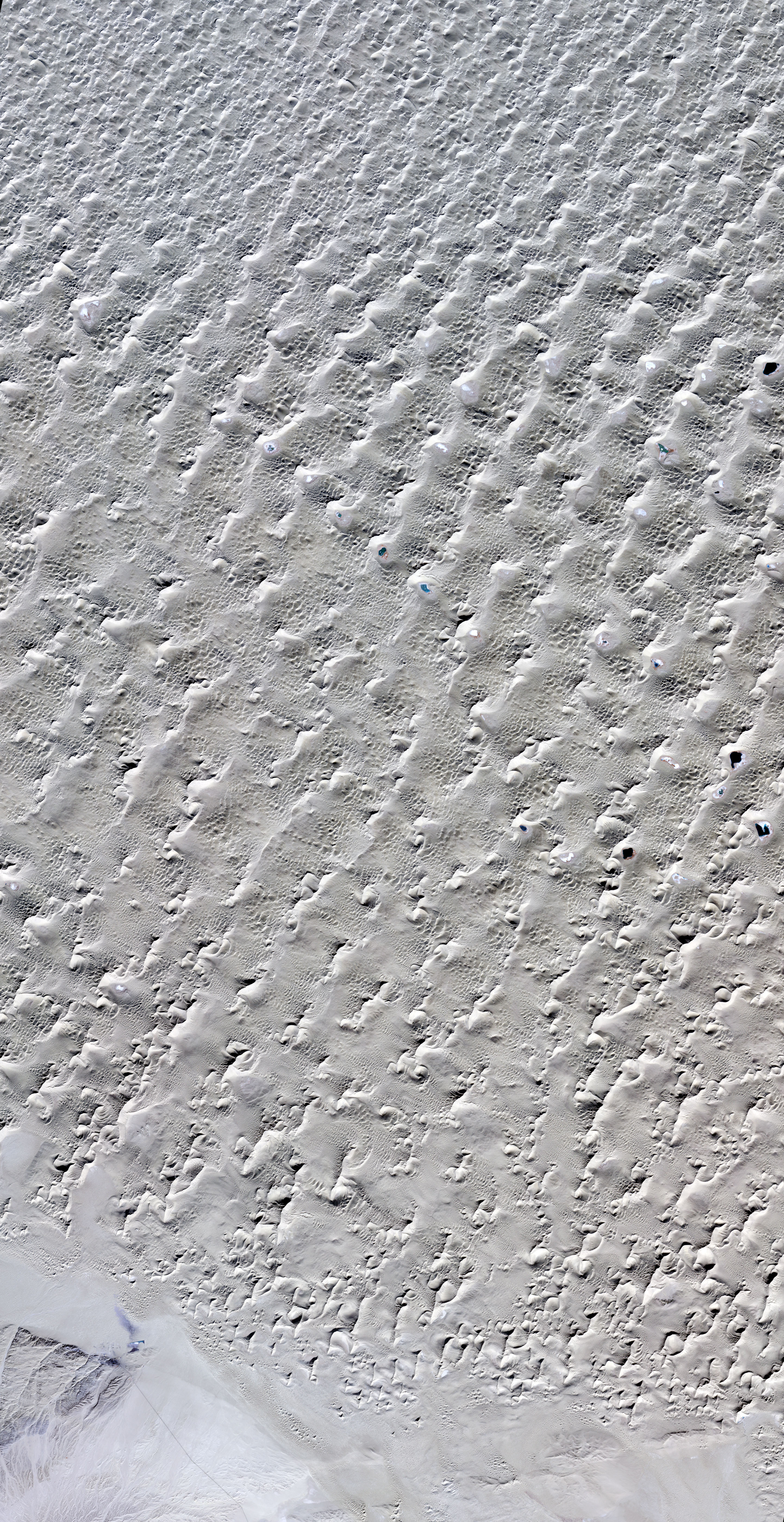 Image of the Badain Jaran Desert made from a combination of visible and near-infrared light. A few lakes appear in the image. Sunlight illuminates south-facing dune surfaces while leaving north-facing surfaces in shadow.